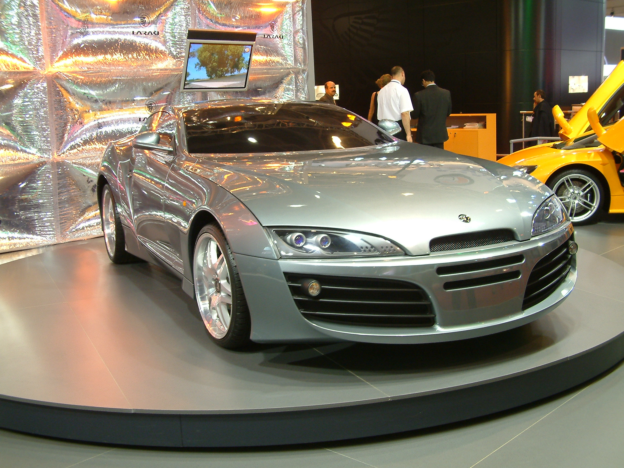 A Borac Laraki Cabrio at an auto show.